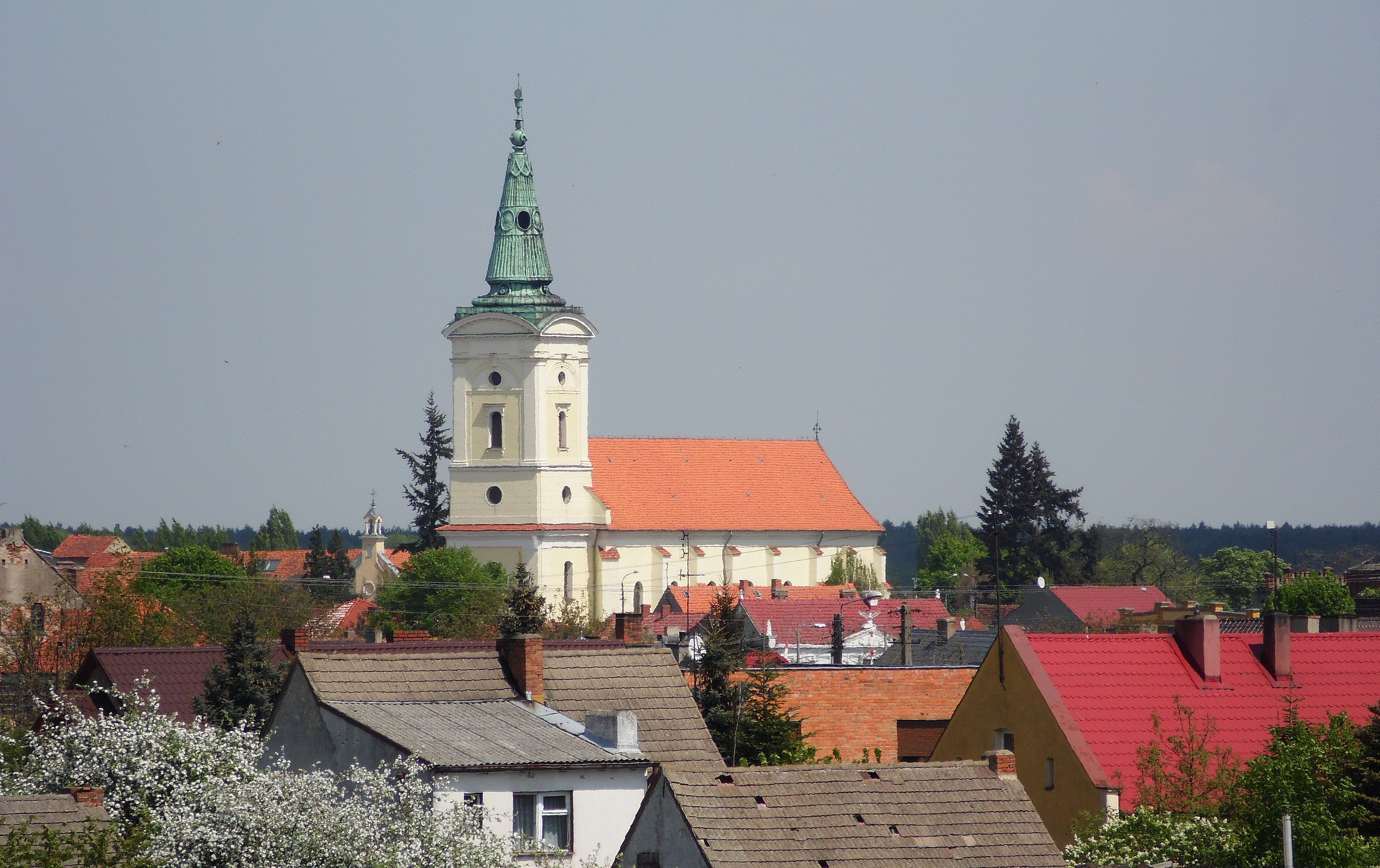 Church. Birth of the Virgin of the thirteenth, eighteenth century (p, pd. - West.) Poniec / area. gostyński / province. Greater Poland / Poland